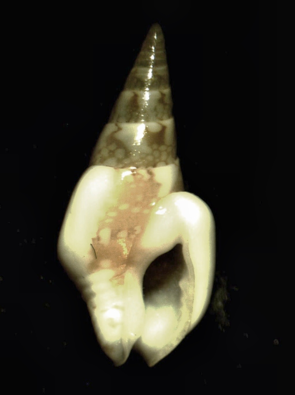 Strombina gibberula Sowerby, 1832, a dove snail from the family Columbellidae; Panama